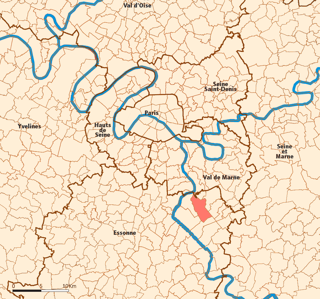 Created map myself